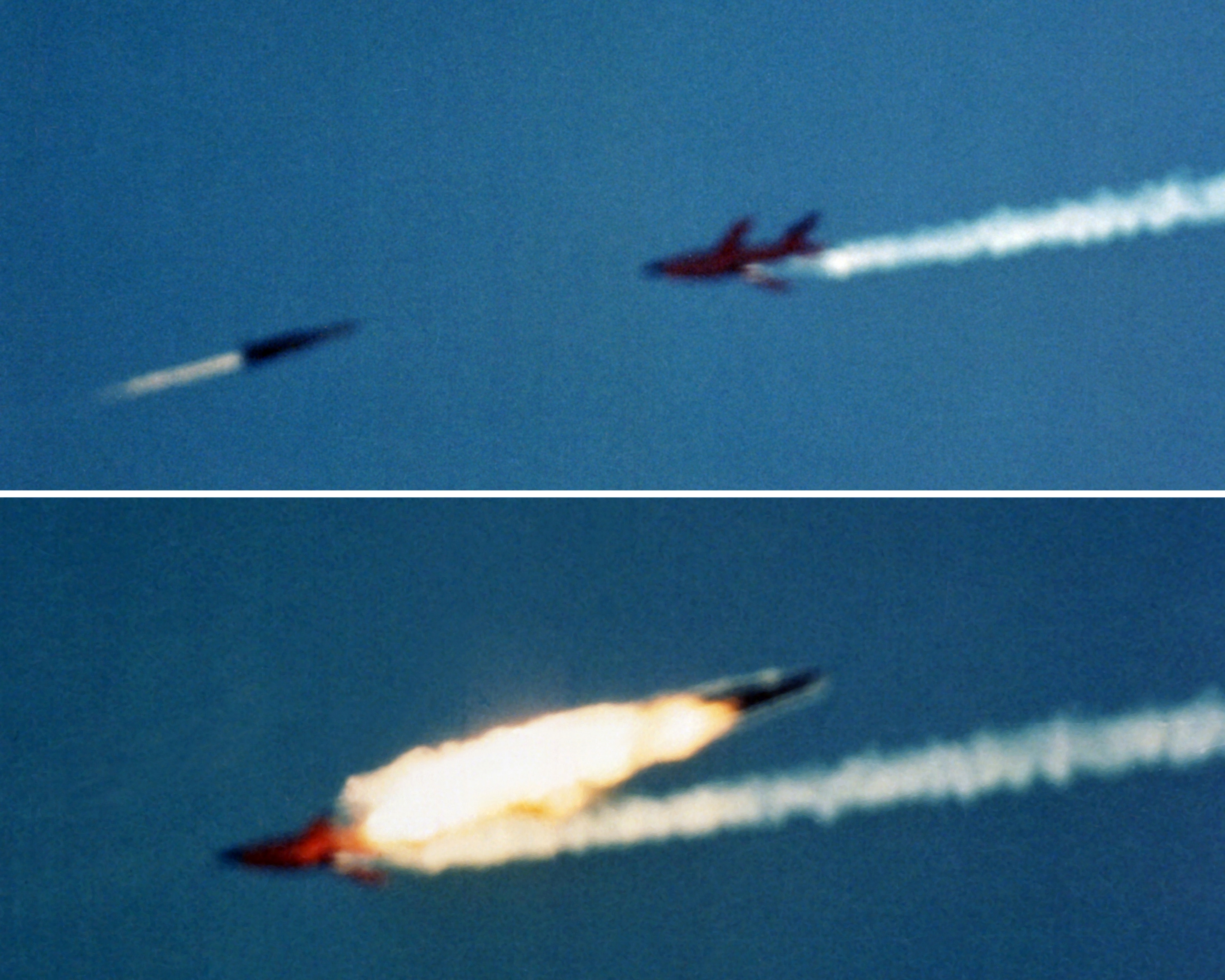 A U.S. Navy RIM-67 Standard SM-2ER surface-to-air missile (left), just launched from the Vertical Launching System (VLS), intercepts a Ryan BQM-34A Firebee target drone during VLS testing at the White Sands Missile Range, New Mexico (USA), in 1980.